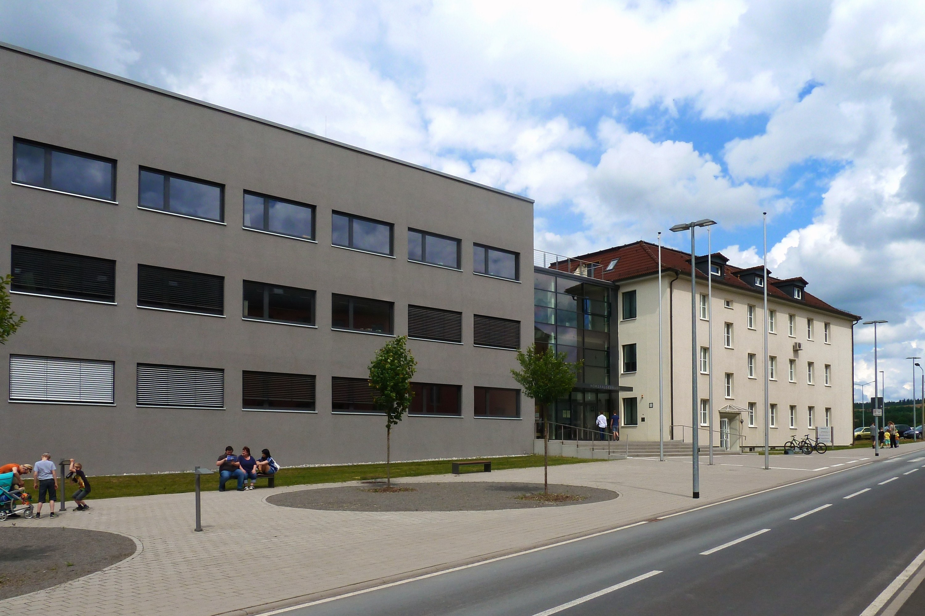 Police Academy in Meiningen, Germany.